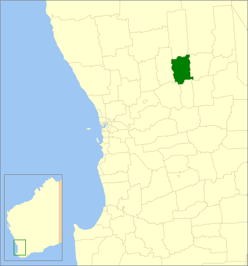 Description=Location of the Local Government Area in Western Australia